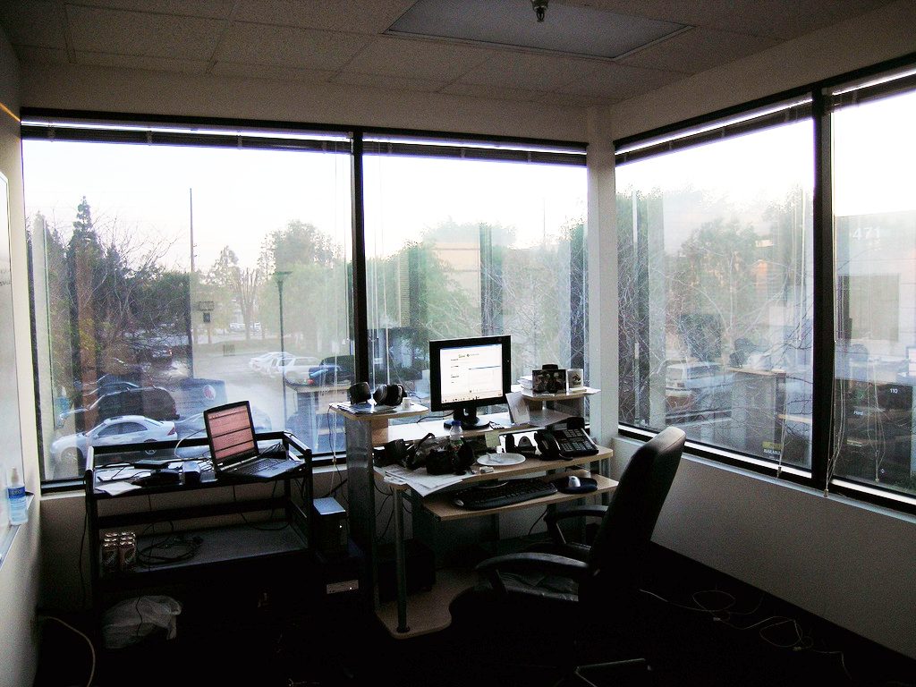 I found this picture on my camera's memory card. I don't remember the last time I sat in my office with the windows all open and just enjoyed it. There are always more windows open on my desktop than in my house/office. ;)